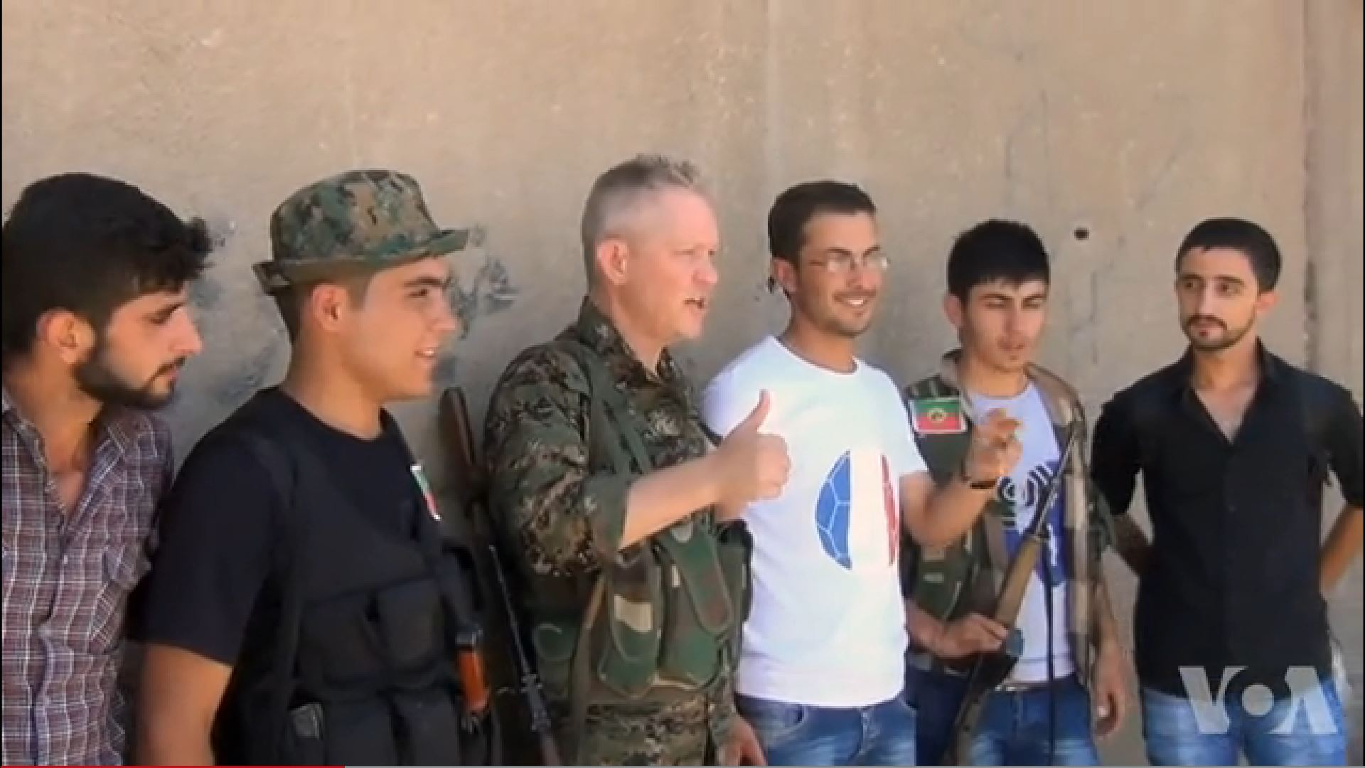 Title of video: "YPG Volunteer Michael Enright on Frontline"